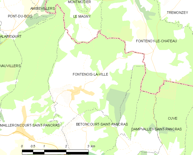 Map of French municipality